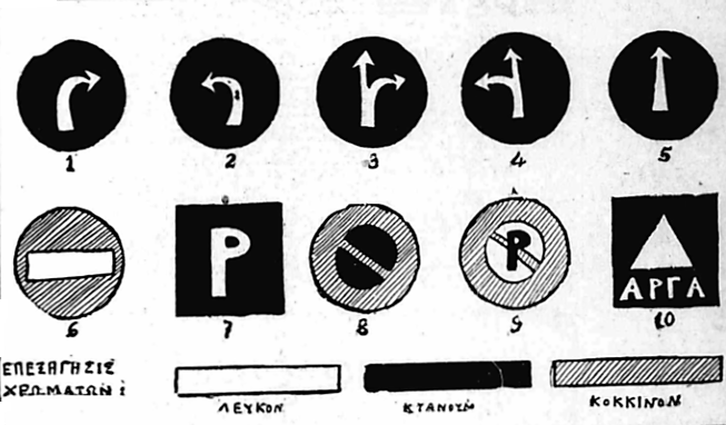 Old Greek Regulatory Road Signs. From Top Left to bottom right: Directional arrows (1 to 5), no entry (6), parking lot (7), no stopping (8), no parking (9) and slow (10).